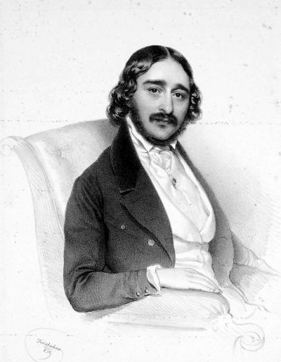 Italian opera singer Antonio Poggi (1806-1875) by Josef Kriehuber (1800-1876).